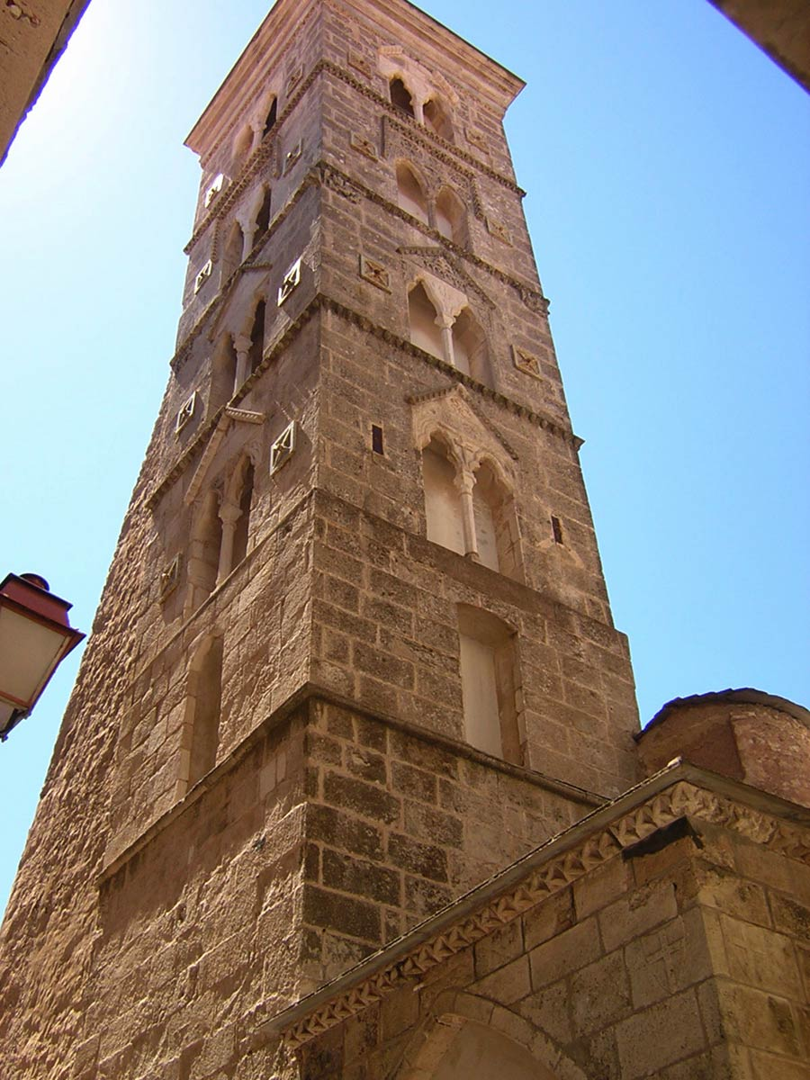 Church of Santa Maria Maggiore, Bonifacio, Corsica. Roman-Pisan Belltower, XII cent.